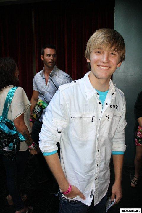 Actor Caudio Encarnacion Montero attends "Miss Behave" Hollywood Premiere and Launch Party - Arrivals at Cinespace in Hollywood, CA